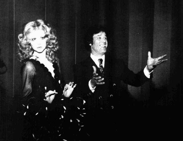 Loretta Goggi, Franco Franchi, backstage of an Italian TV show